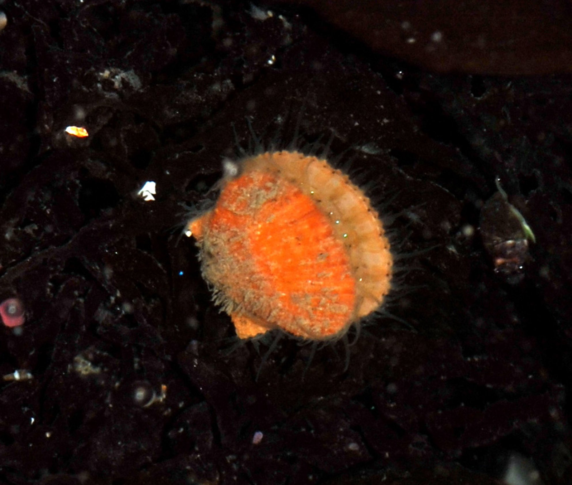 Crop of file in filename